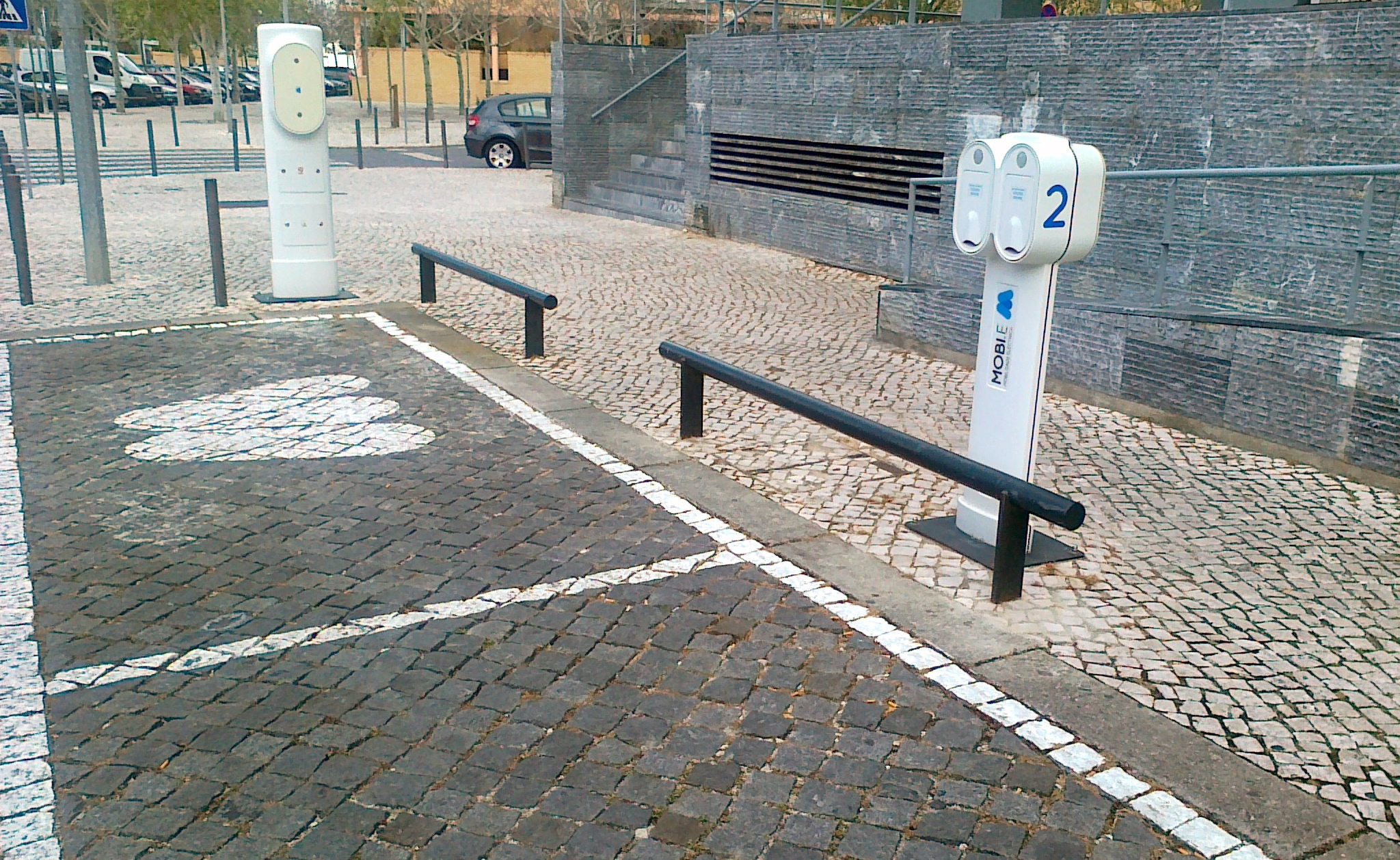 Charging point for electric cars in Lisbon